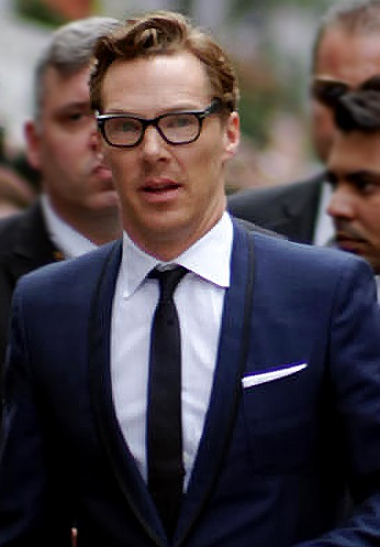 Benedict Cumberbatch with fans at the 2014 Toronto International Film Festival